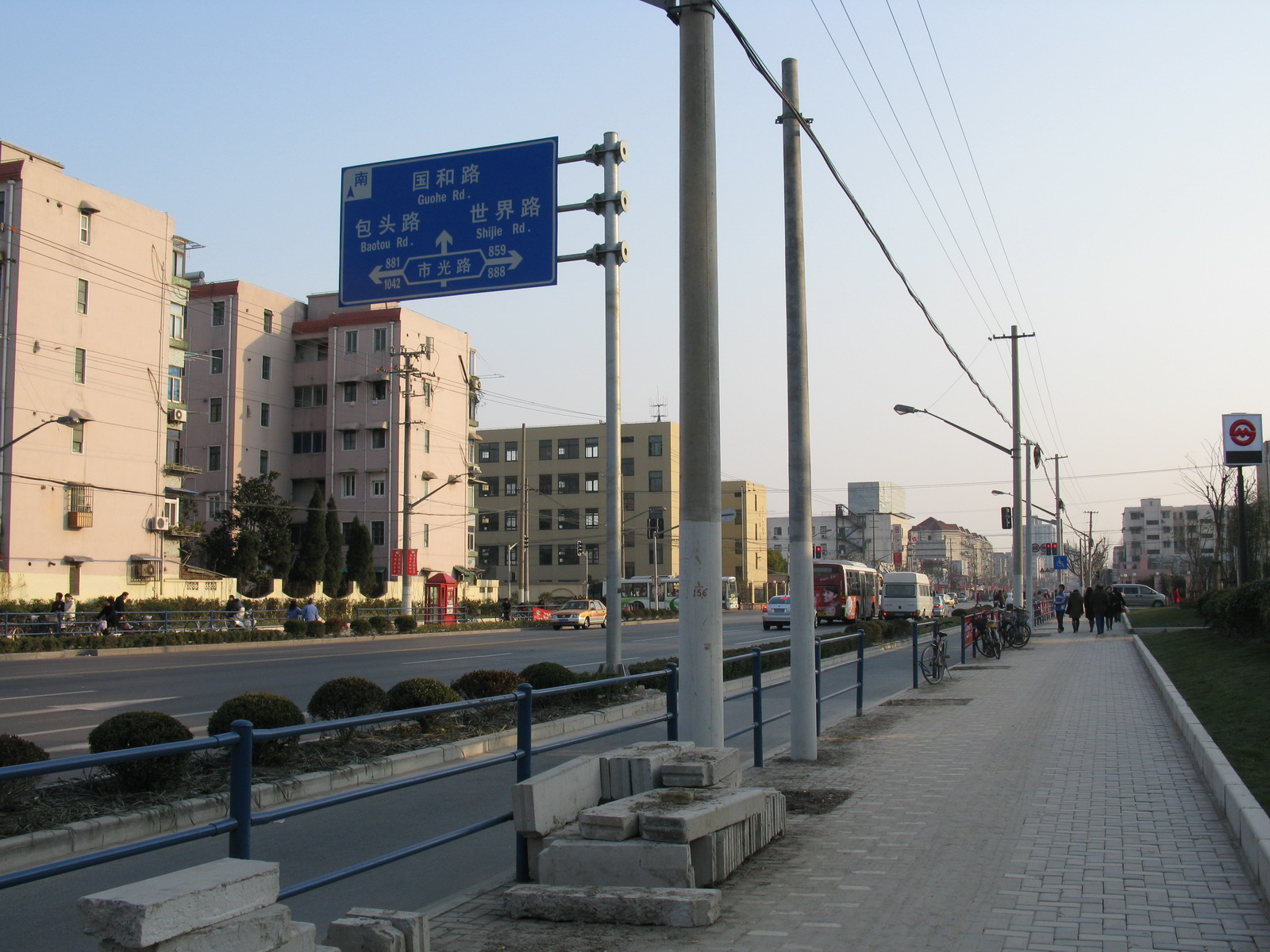 Zhongyuan Road, Yangpu District